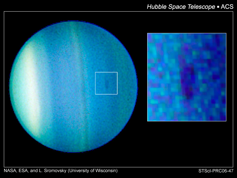 The first dark spot on Uranus ever observed. The image is obtained by ACS on HST in 2006. Image was downloaded from [1] (Credit: NASA, ESA, L. Sromovsky and P. Fry (University of Wisconsin), H. Hammel (Space Science Institute), and K. Rages (SETI Institute)).